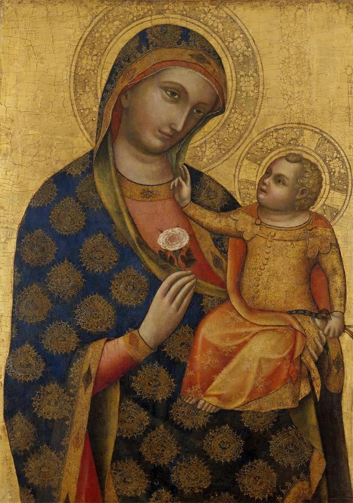 Lorenzo_Veneziano._Madonna_and_Child._c._1371_Birmingham_Museum_of_Art.